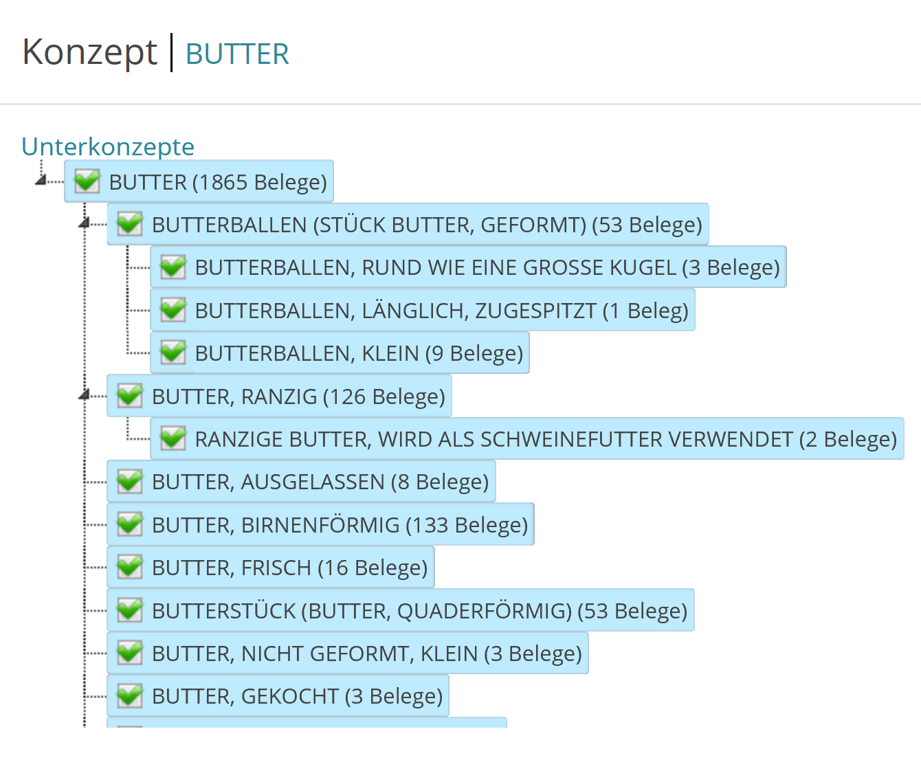 all listed types of concept of BUTTER in the interactive map of Verbaalpina